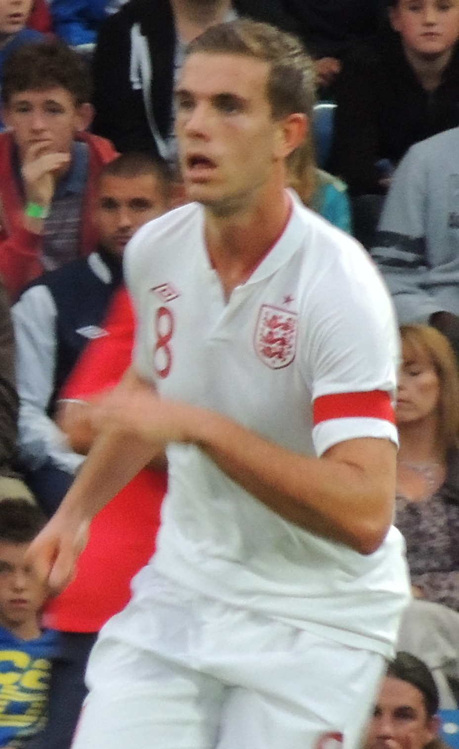 Jonjo Shelvey and Jordan Henderson playing for England U-21.